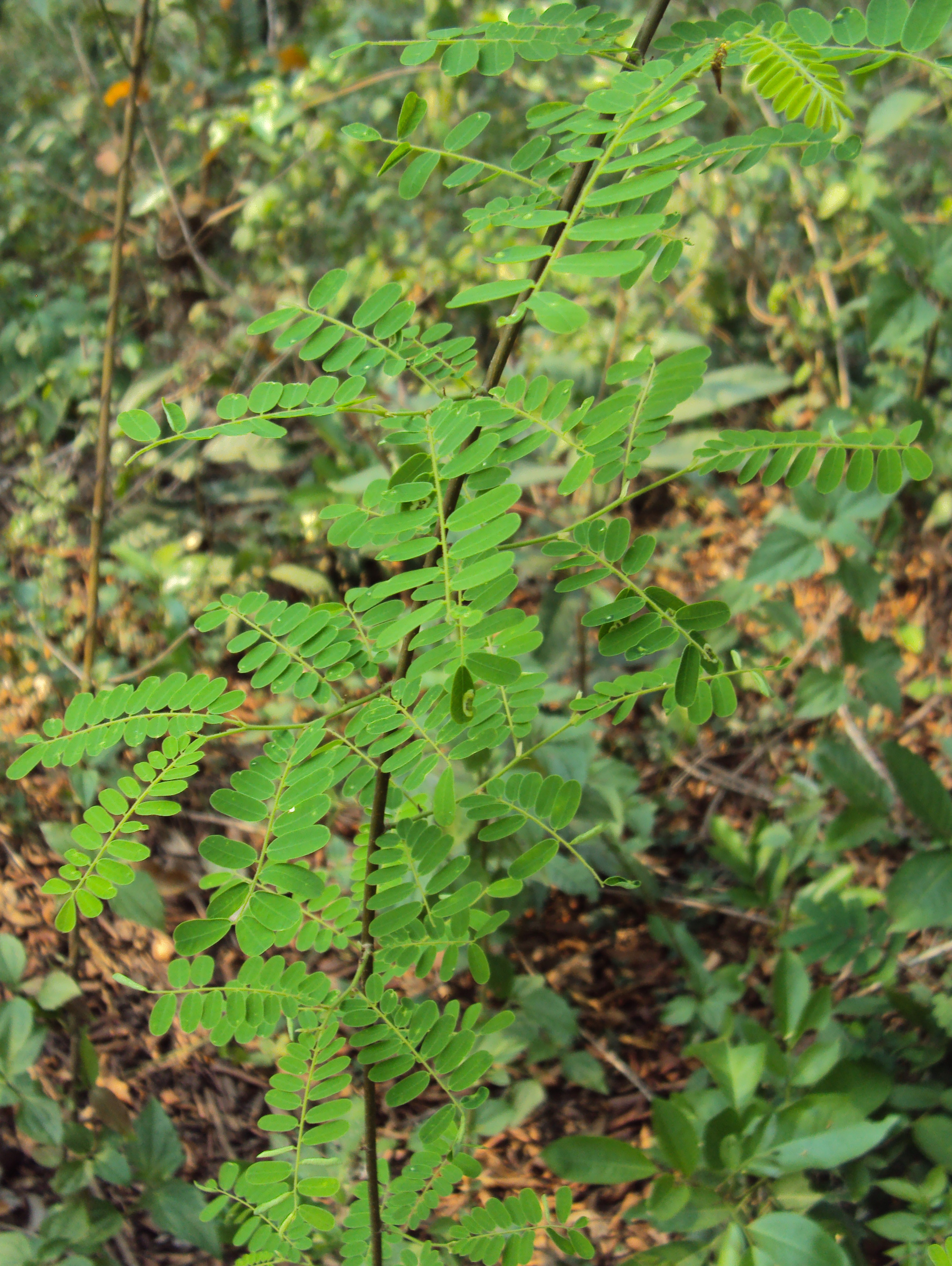 Dalbergia horrida